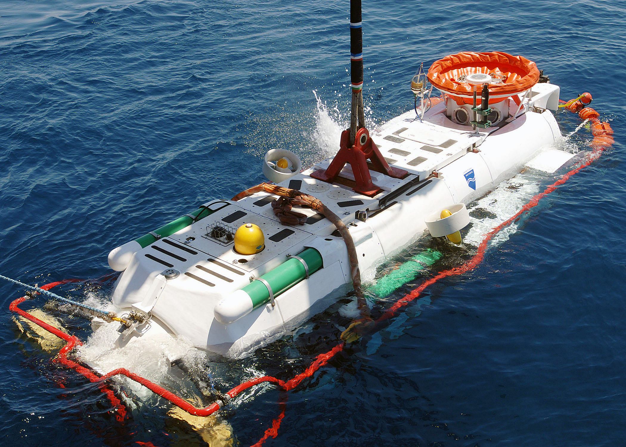 The United Kingdom's Manned Submersible LR5 rescue vehicle is lowered into the water by a crane from the Finnish icebreaker MSV (Multi Service Vessel) FENNICA during the North Atlantic Treaty Organization (NATO) Submarine Escape and Rescue (SERS) Exercise SORBET ROYAL 2005. Divers from various nations will work together to rescue submariners during the exercise in the Mediterranean. Twenty-seven participating nations, including 14 NATO nations will test their capabilities and interoperability. Four submarines with up to 52 crewmembers aboard will be placed on the bottom of the ocean, while rescue forces with rescue vehicles and systems work together to solve complex disaster rescue problems.